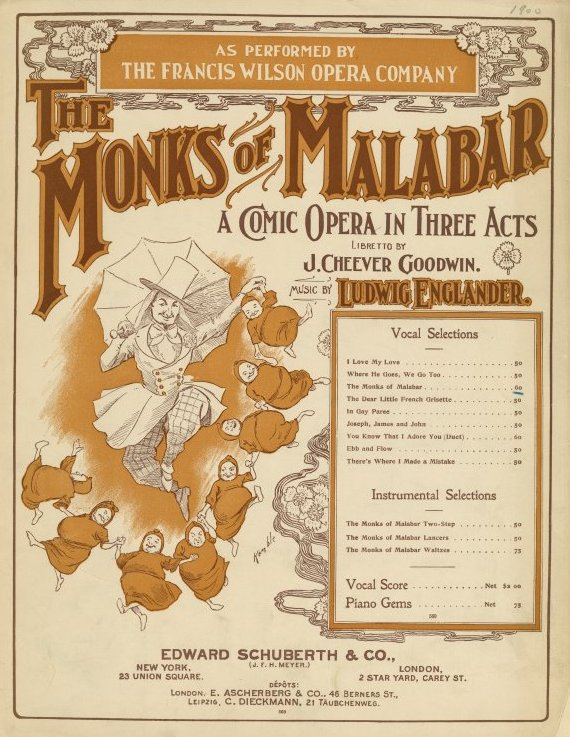 Sheet music from The Monks of Malabar, first produced September 13, 1900 at the Knickerbocker Theatre in New York City